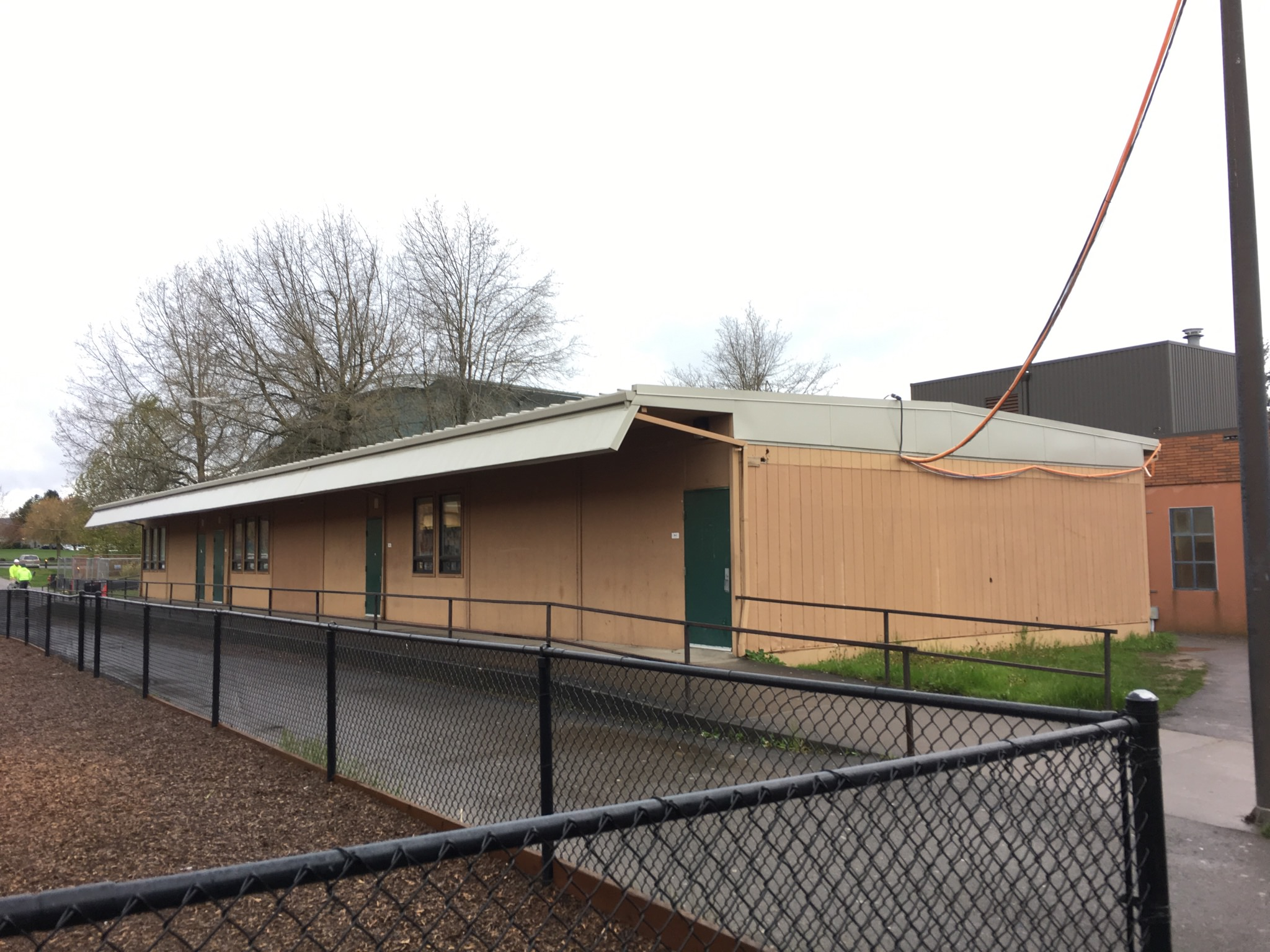 A portable complex of classrooms at Reynolds High School in Troutdale Oregon, U.S.